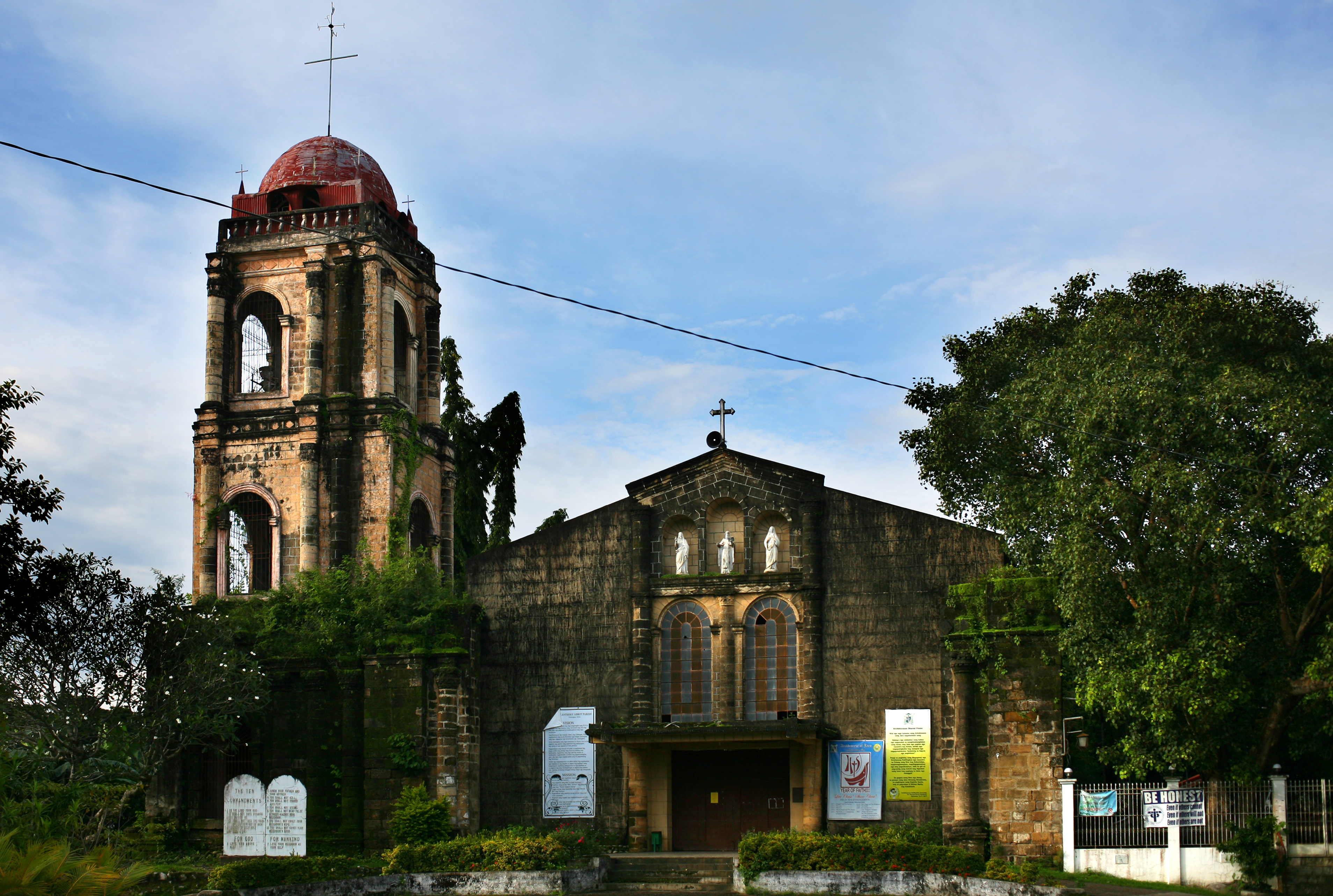 The Spanish church at Tubungan, Iloilo province, Philippines